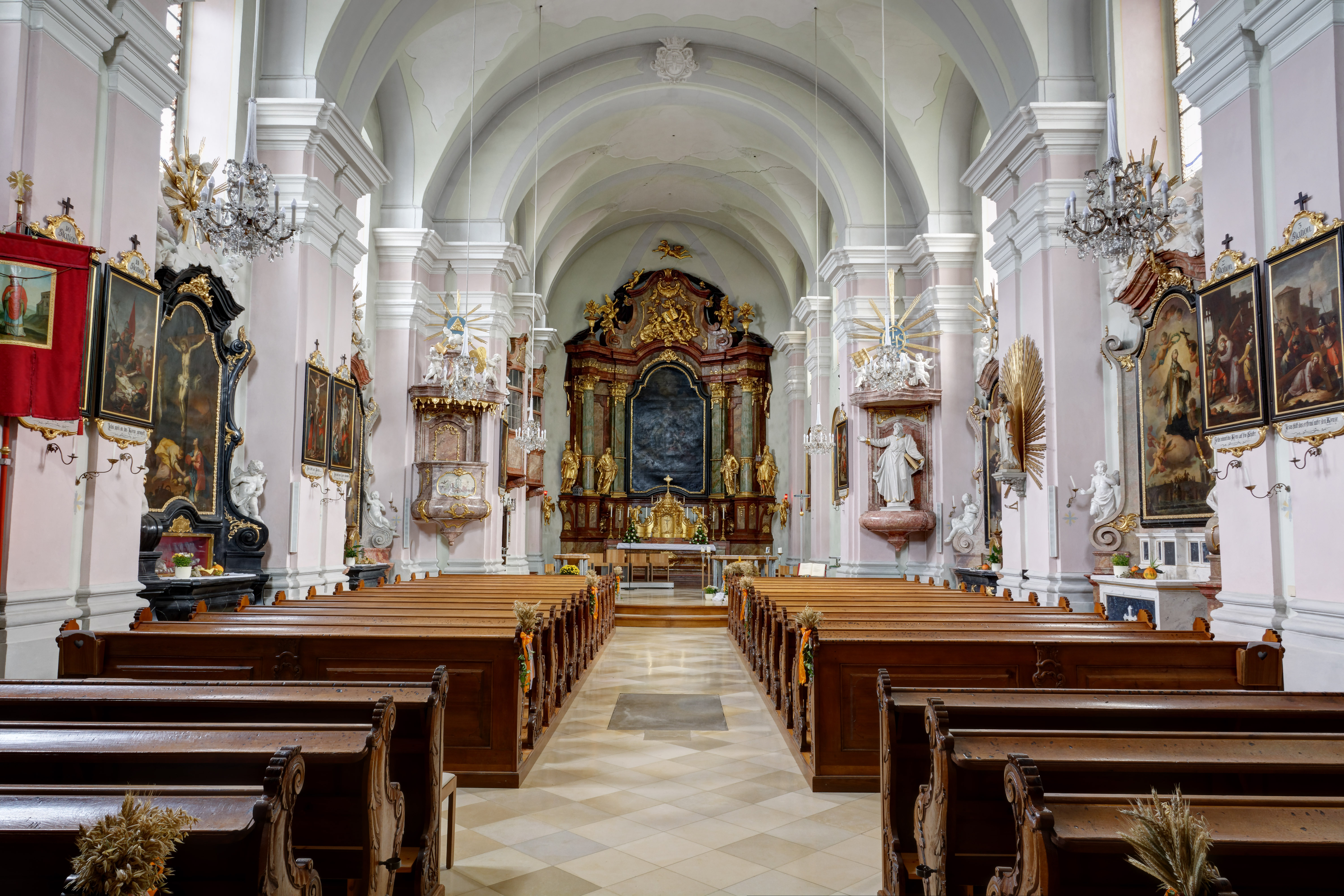 Indoor of the catholic parish church of Ernstbrunn, Lower Austria, Austria